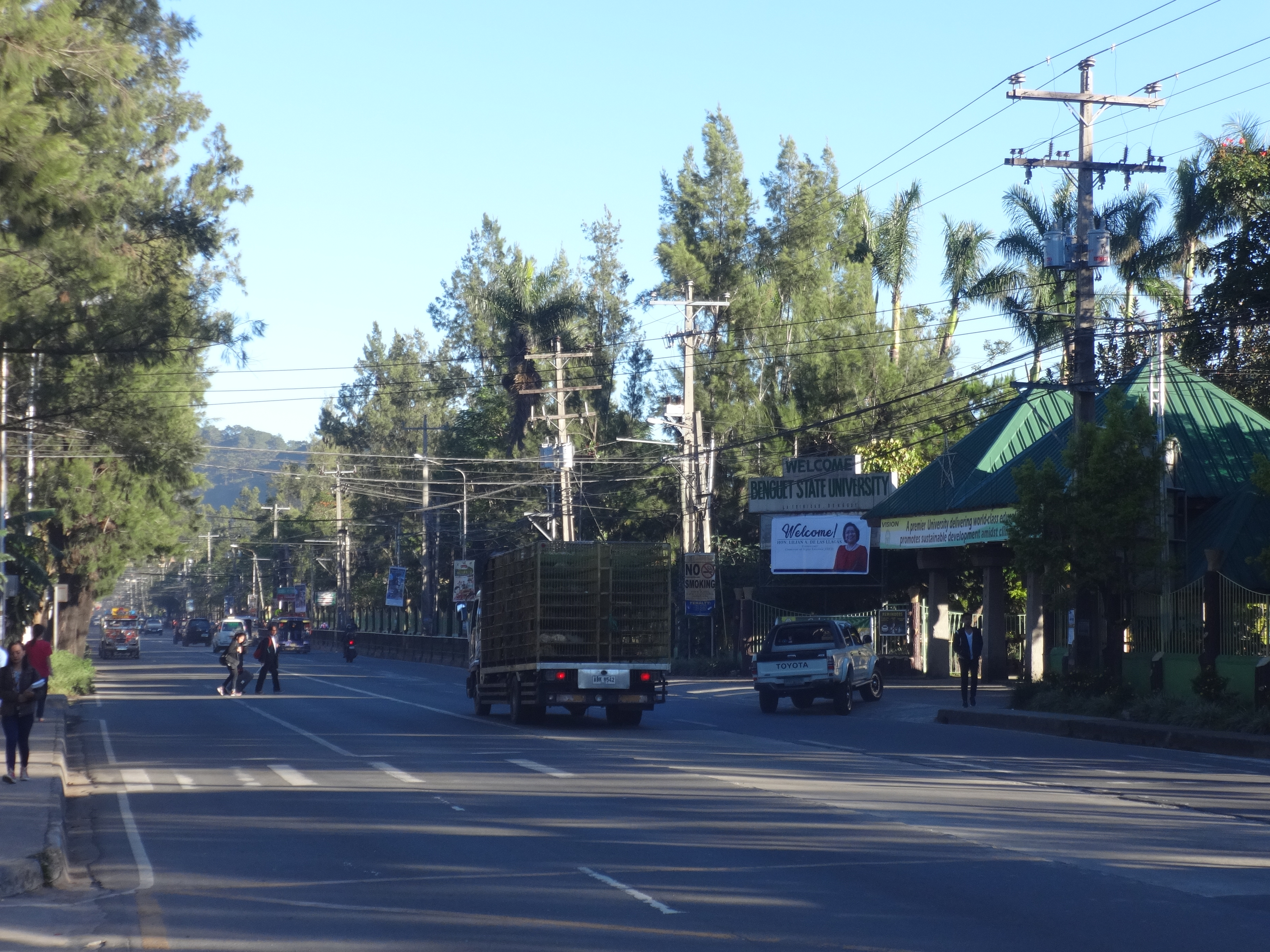 A section of Halsema Highway near Benguet State University in La Trinidad, Benguet